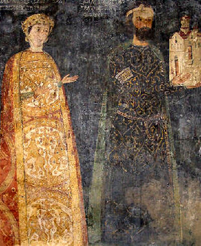 Donor's portrait of sebastocrator Kaloyan and his wife Desislava from the Boyana Church in Sofia, Bulgaria, 13th century